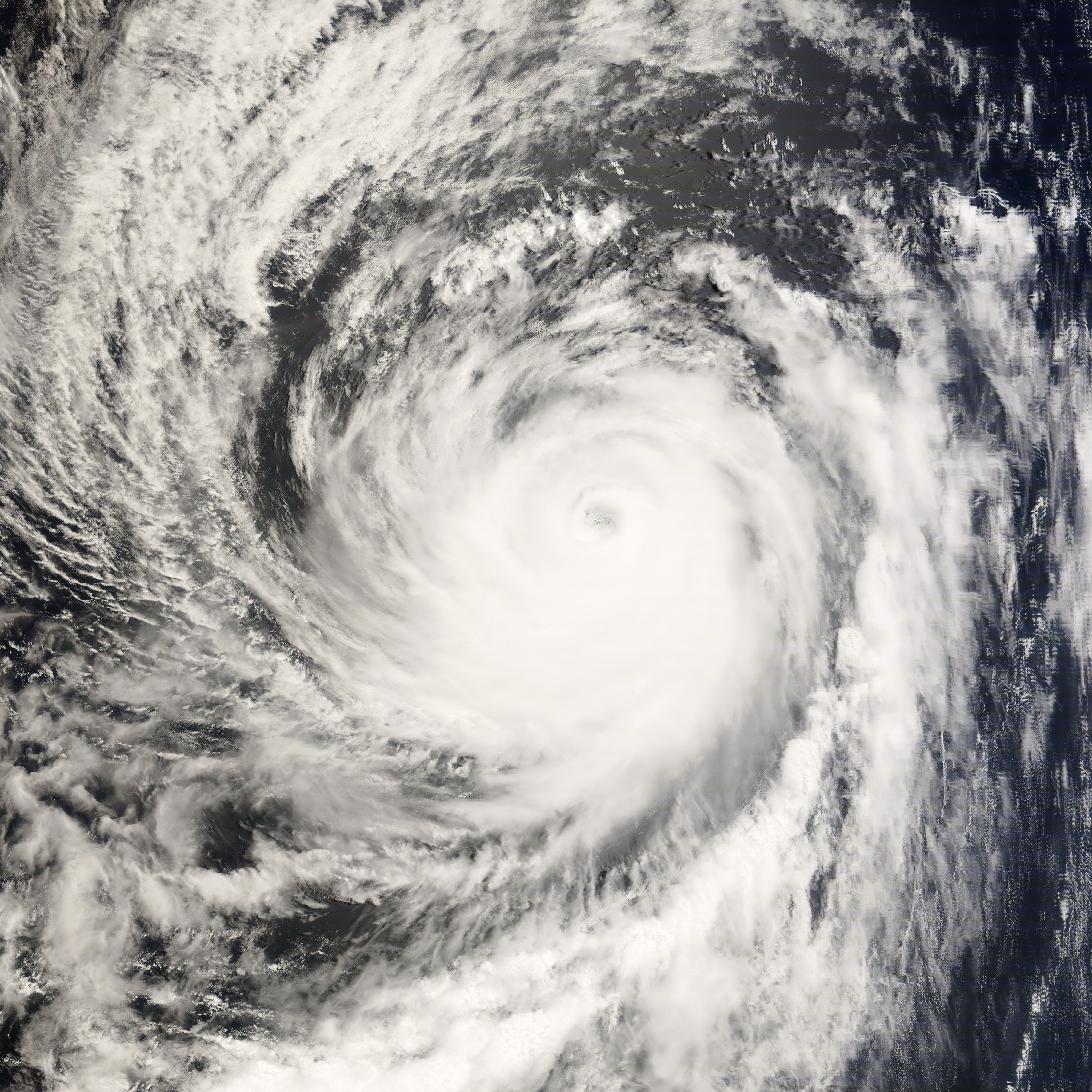 Hurricane Hernan (2008) as seen from Terra Satellite on 2008-08-09.